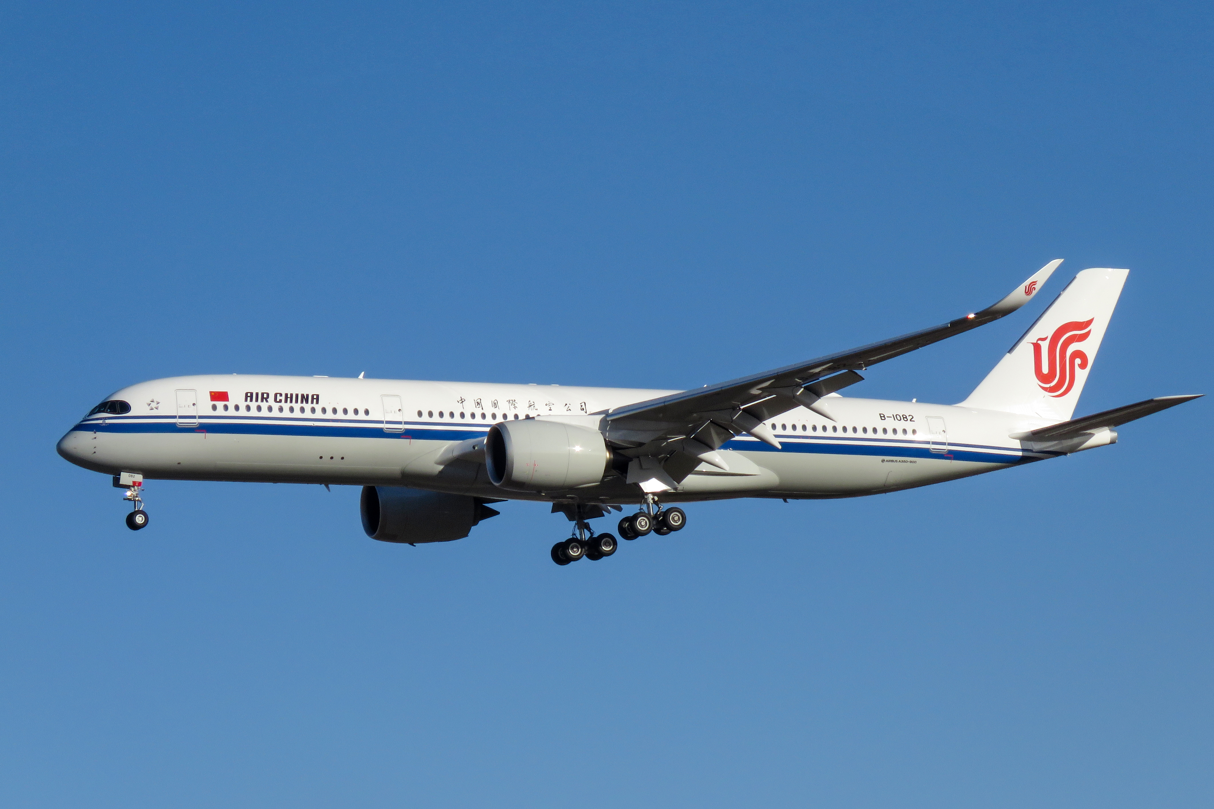 Air China 1520 from Shanghai Hongqiao. Nearly frozen under -6°C for this fellow which was delivered fresh from Toulouse a week ago!